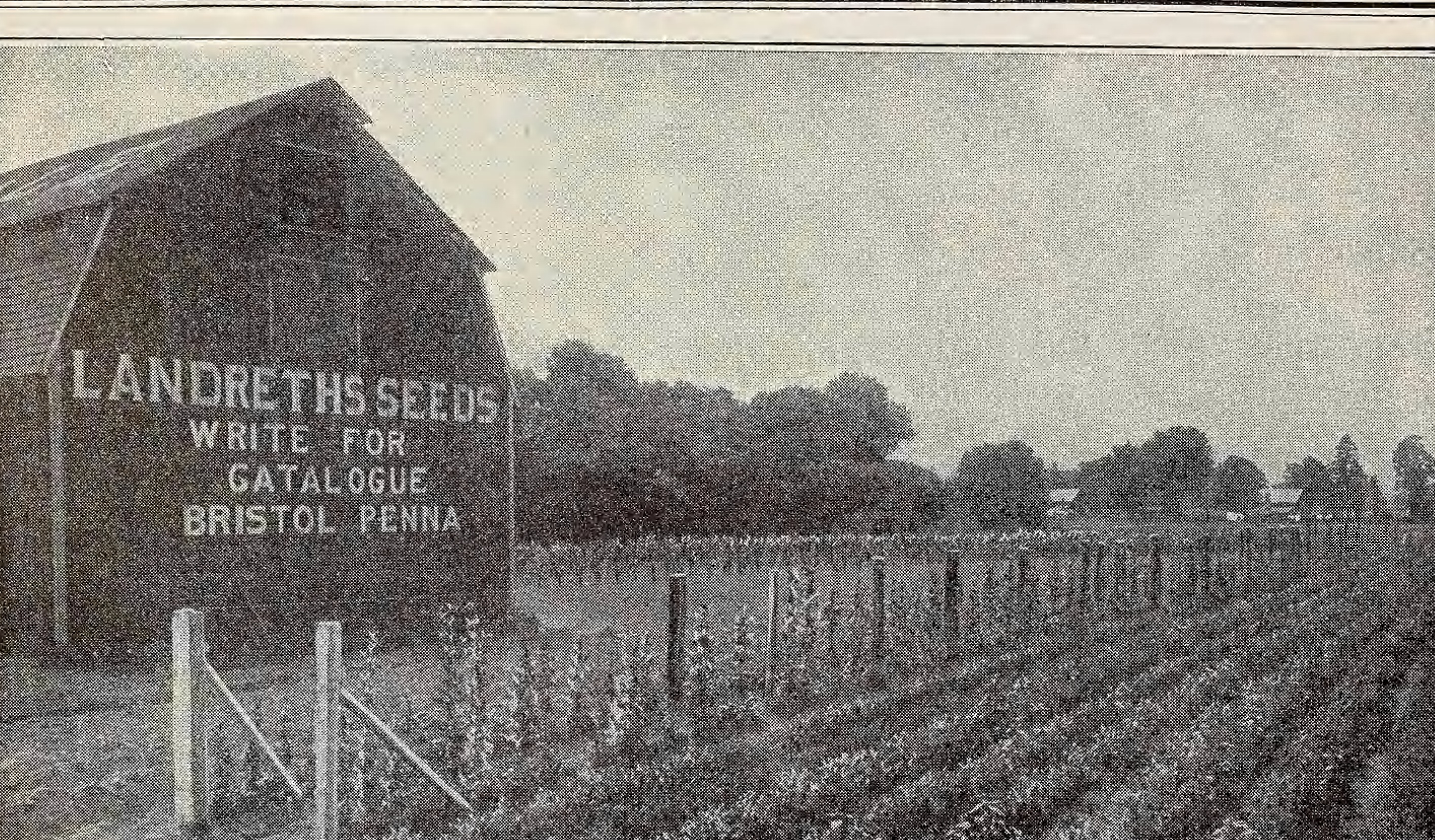 Title: D. Landreth Seed Company : (catalog) Year: 19uu (19u0s) Authors: Landreth, D. Seed Company Subjects: Nurseries (Horticulture); Nursery stock; Flowers; Seeds; Vegetables; Seed industry and trade; Landreth, D. Seed Company; Seeds; Flowers; Seeds; Vegetables; Seeds; Seed industry and trade; Seed industry and trade Publisher: Bristol, PA Bloomsdale, PA Baltimore, MD New Freedom, PA : D. Landreth Seed Company Text Appearing Before Image: SEEDS WHICH SUCCEED Text Appearing After Image: '